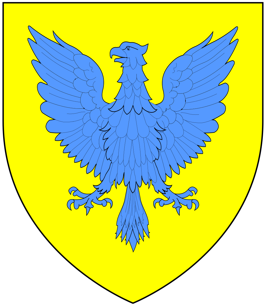 Arms of Peverell of Ermington, Devon: Or, an eagle displayed azure (Source: Pole, Sir William (d.1635), Collections Towards a Description of the County of Devon, Sir John-William de la Pole (ed.), London, 1791, pp.317,496; Risdon, Tristram (d.1640), Survey of Devon, 1811 edition, London, 1811, with 1810 Additions, p.185)